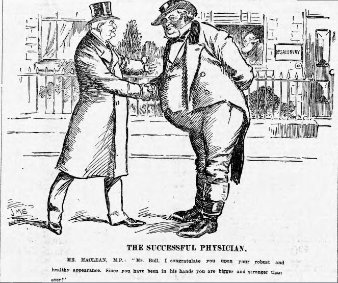 Political cartoon by JM Stanisford. James Mackenzie Maclean, MP for Cardiff, congratulates John Bull, a personification of Great Britain, on how well he looks now he is under the care of Prime Minister Robert Gascoyne-Cecil, 3rd Marquess of Salisbury.